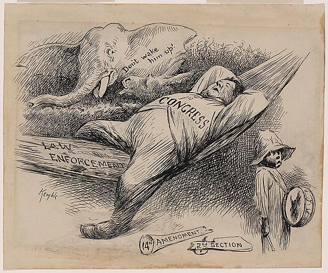 This is a cartoon where Congress is asleep and fails to use the rights in the 14th Amendment to protect the black boy with the drum.